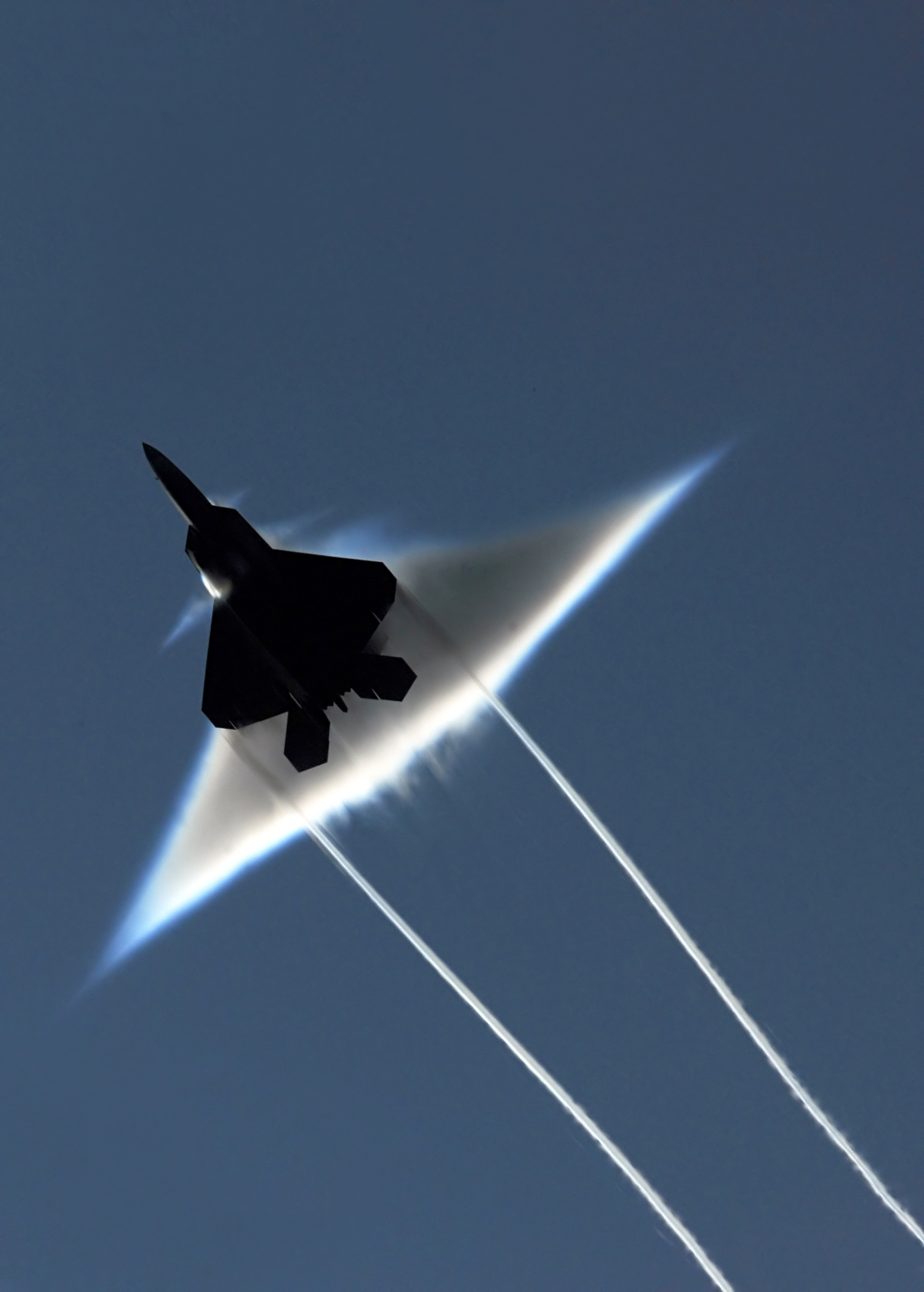 GULF OF ALASKA (June 22, 2009) An Air Force F-22 Raptor executes a transonic flyby over the flight deck of the aircraft carrier USS John C. Stennis (CVN 74). John C. Stennis is participating in Northern Edge 2009, a joint exercise focusing on detecting and tracking units at sea, in the air and on land. (U.S. Navy photo by Mass Communication Specialist 2nd Class Kyle Steckler/Released)